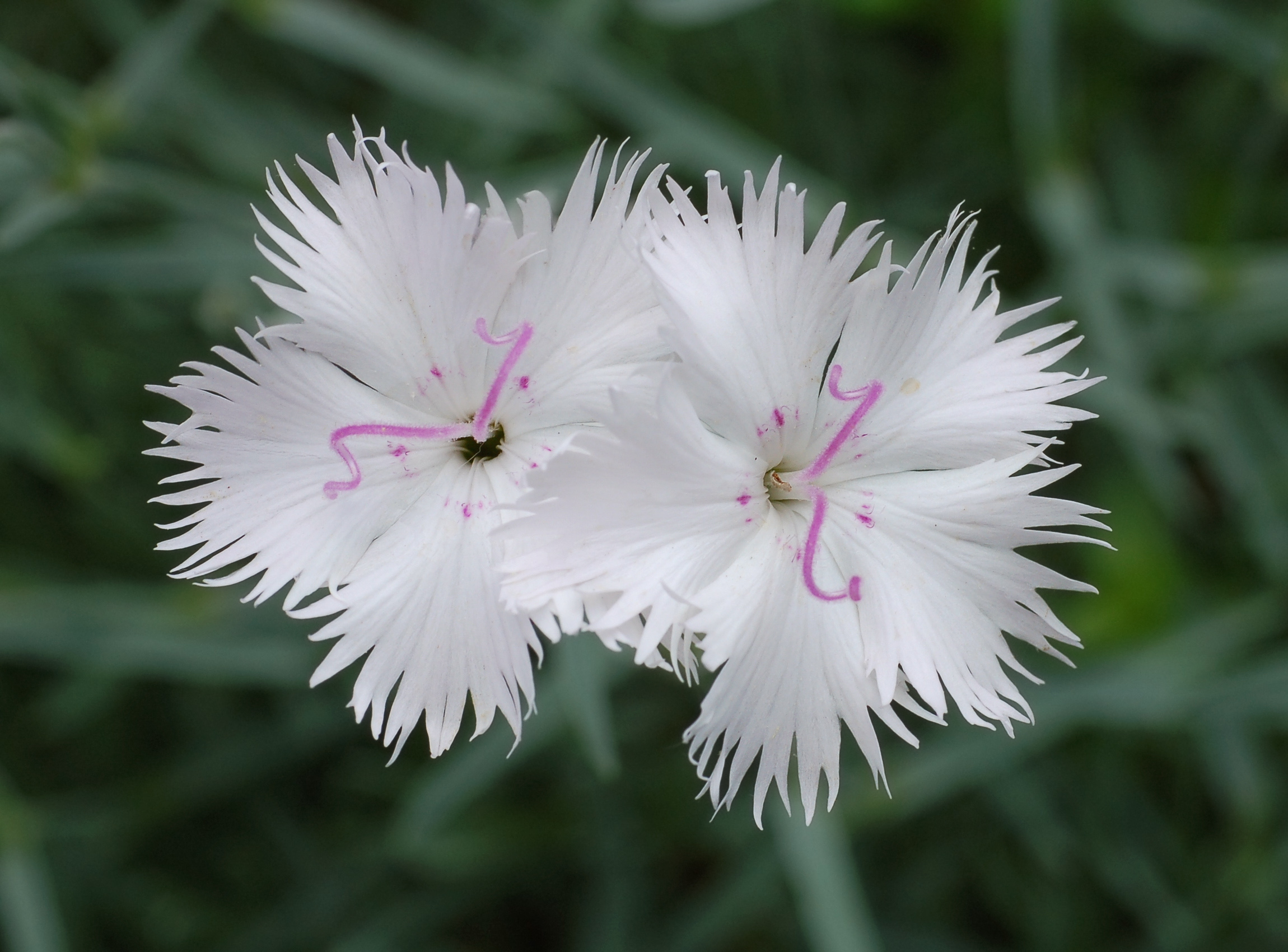 Picture of two flowers of the Dianthusen (Dianthus japonicus en ). Photo taken on Step 11 in the Ruin Garden at the Chanticleer Garden where the species was identified. The plant is listed with Accession #2000-0130.